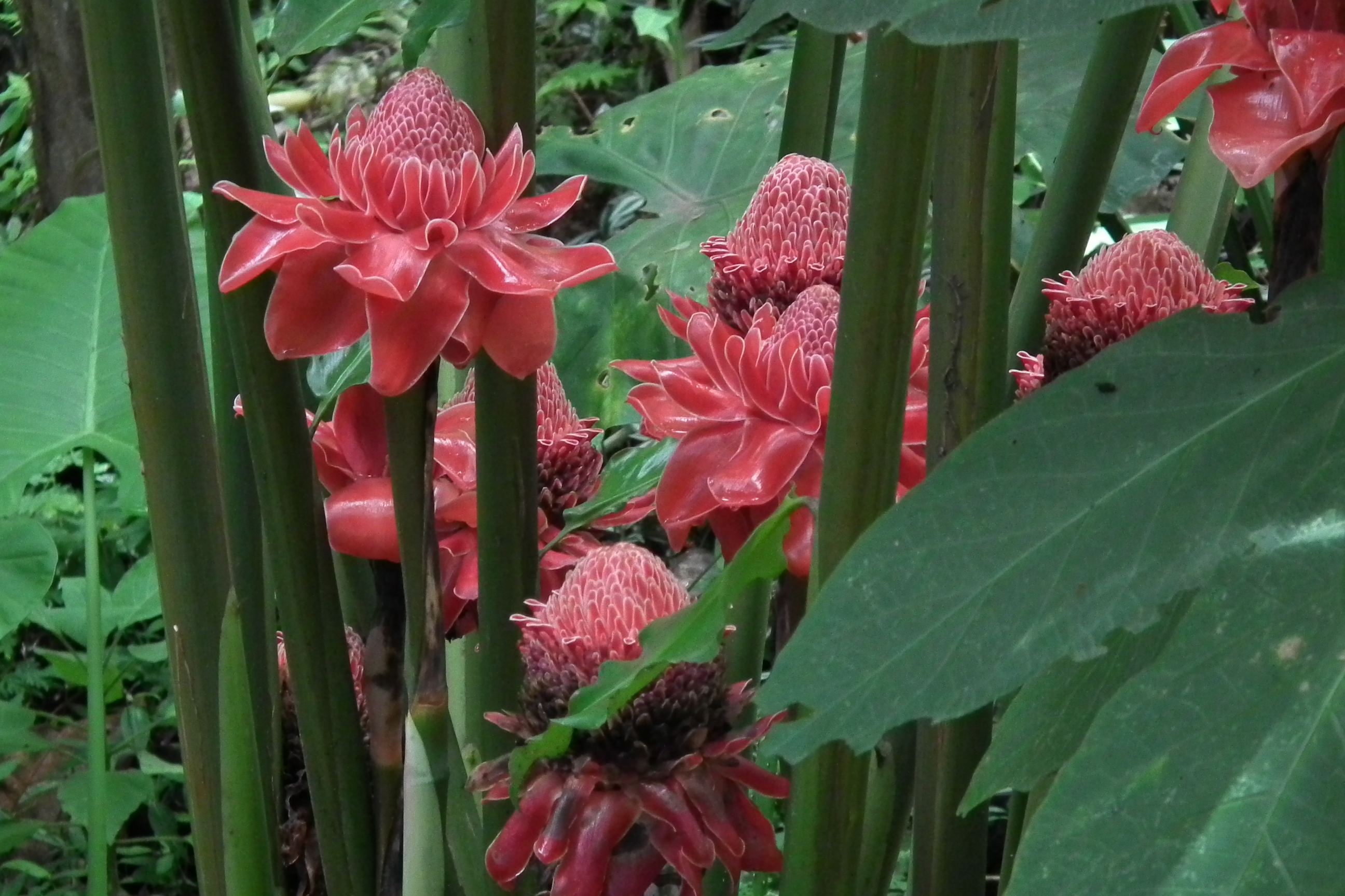 Etlingera elatior Torch Ginger Luang Prabang